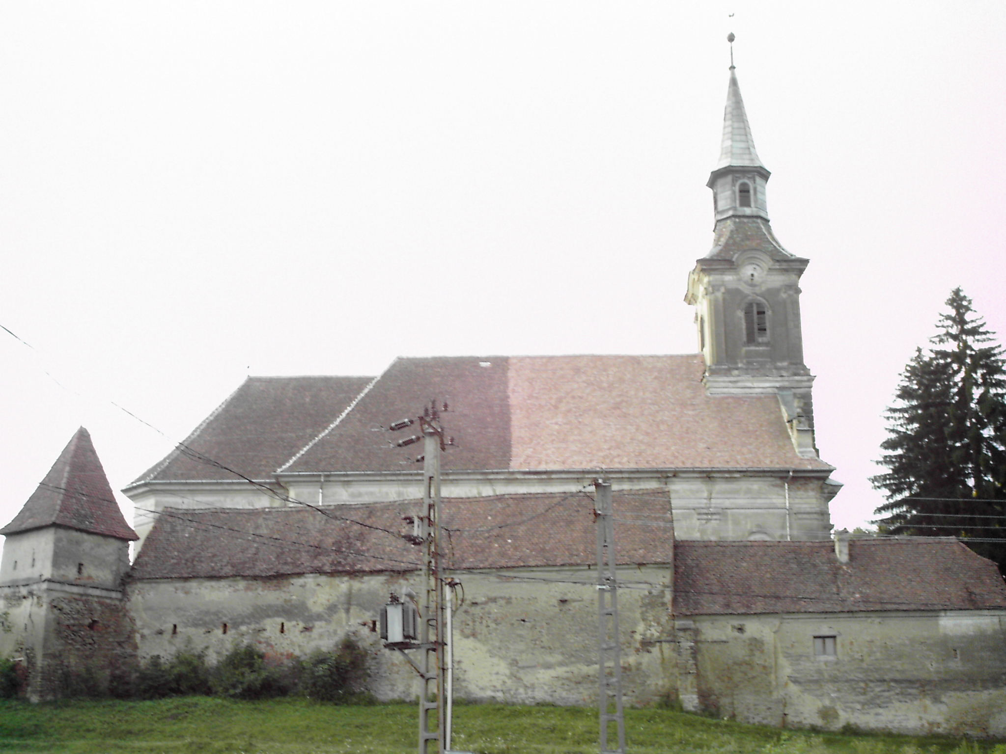 Saxon Fortified church in Saes, Romania